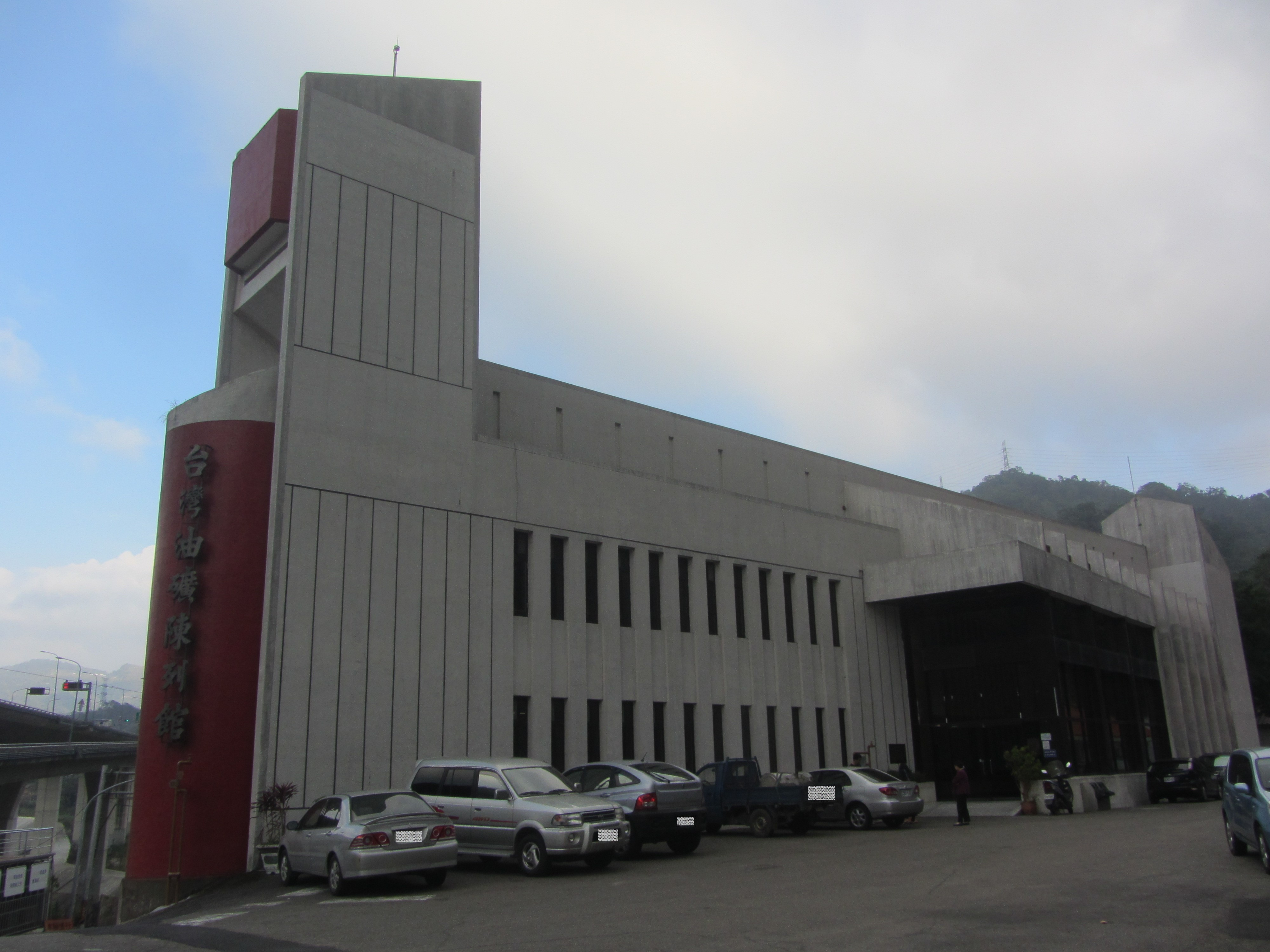 Taiwan Oil Field Exhibition Hall, Gongguan Township, Miaoli County, Taiwan